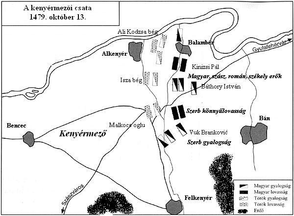 The map of the Battle of Breadfield (Kenyérmező), October 13 1479